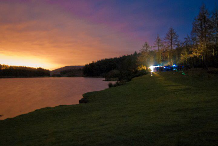 cod beck reservoir at sunrise with a community gathering.